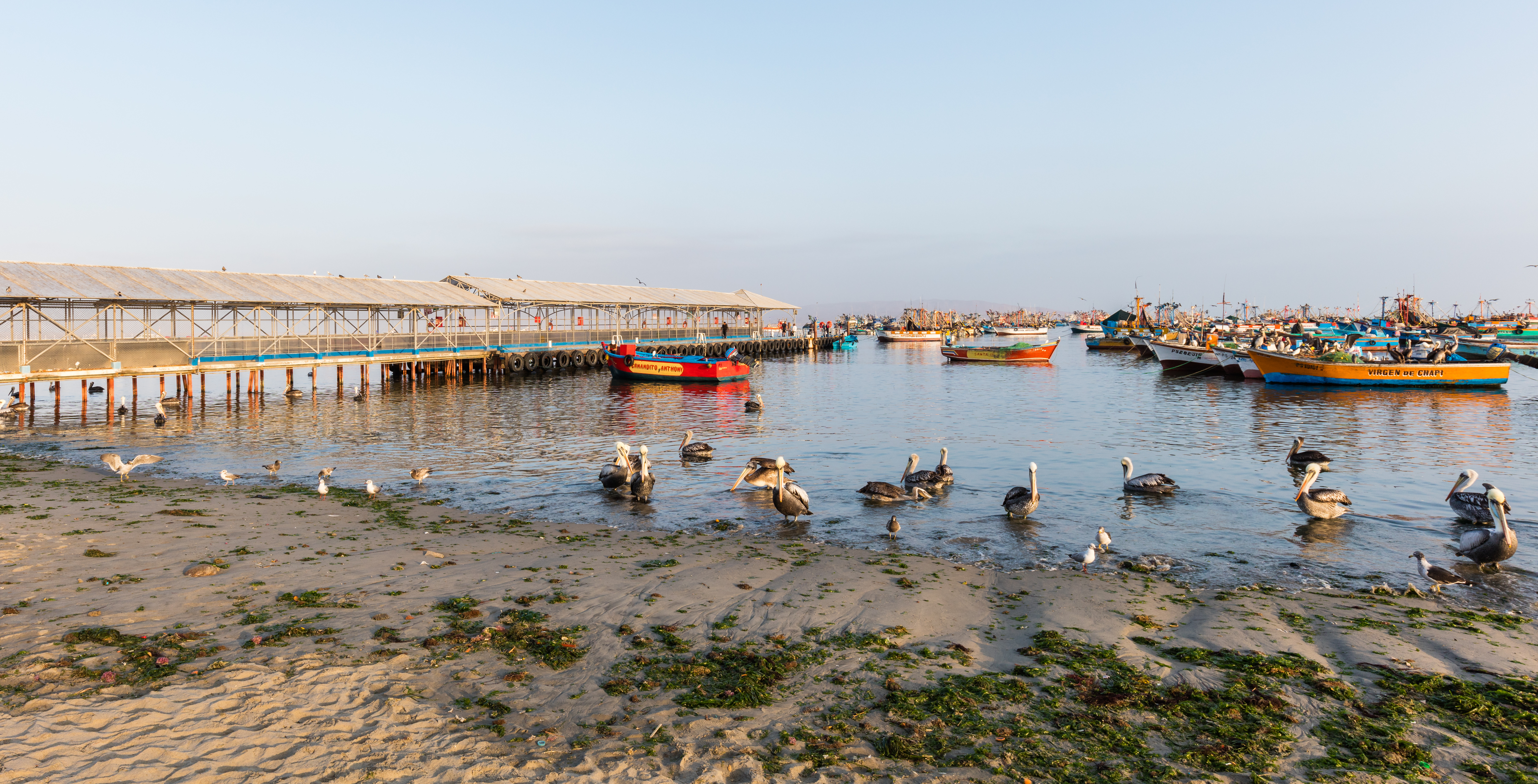 Peruvian pelican (Pelecanus thagus), Port of Paracas, Peru